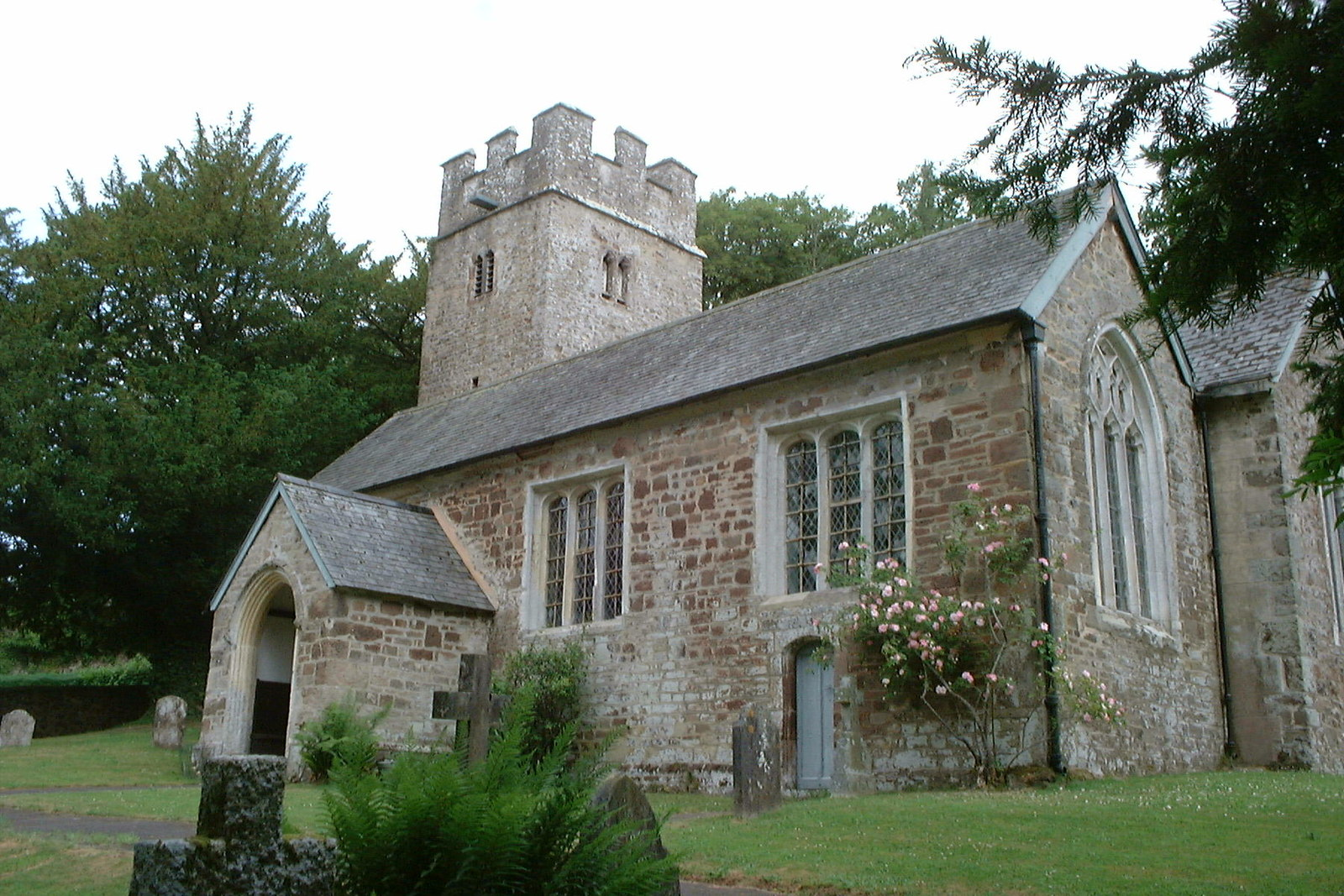 St Mary the Virgin parish church, Calverleigh, Devon, seen from the southeast